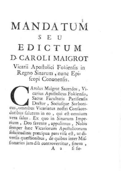 Document in which Charles Maigrot forbids the rites in China